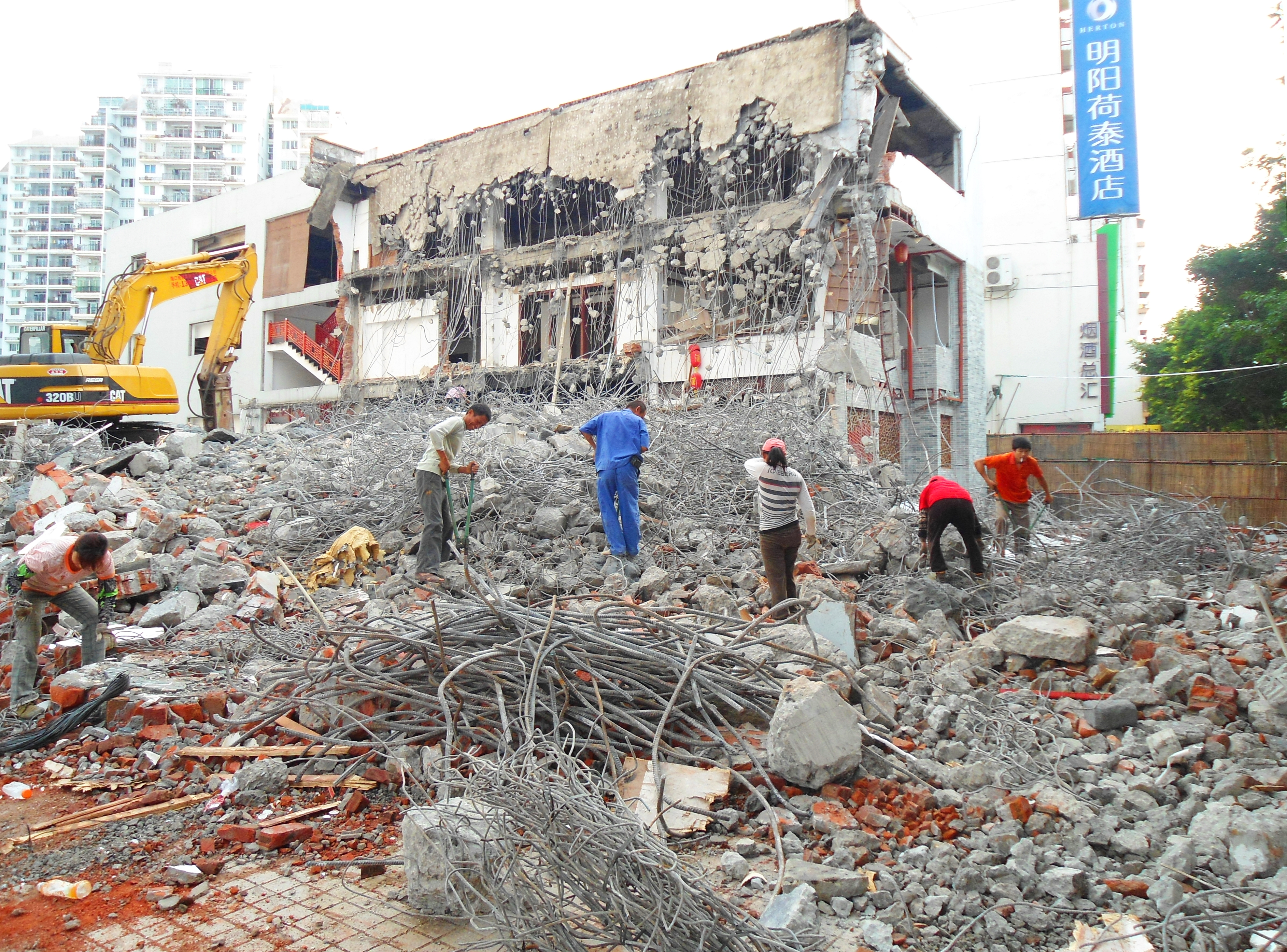 Workers extracting rebar and other metal from concrete rubble at building demolition site, Haikou City, Hainan Province, China.